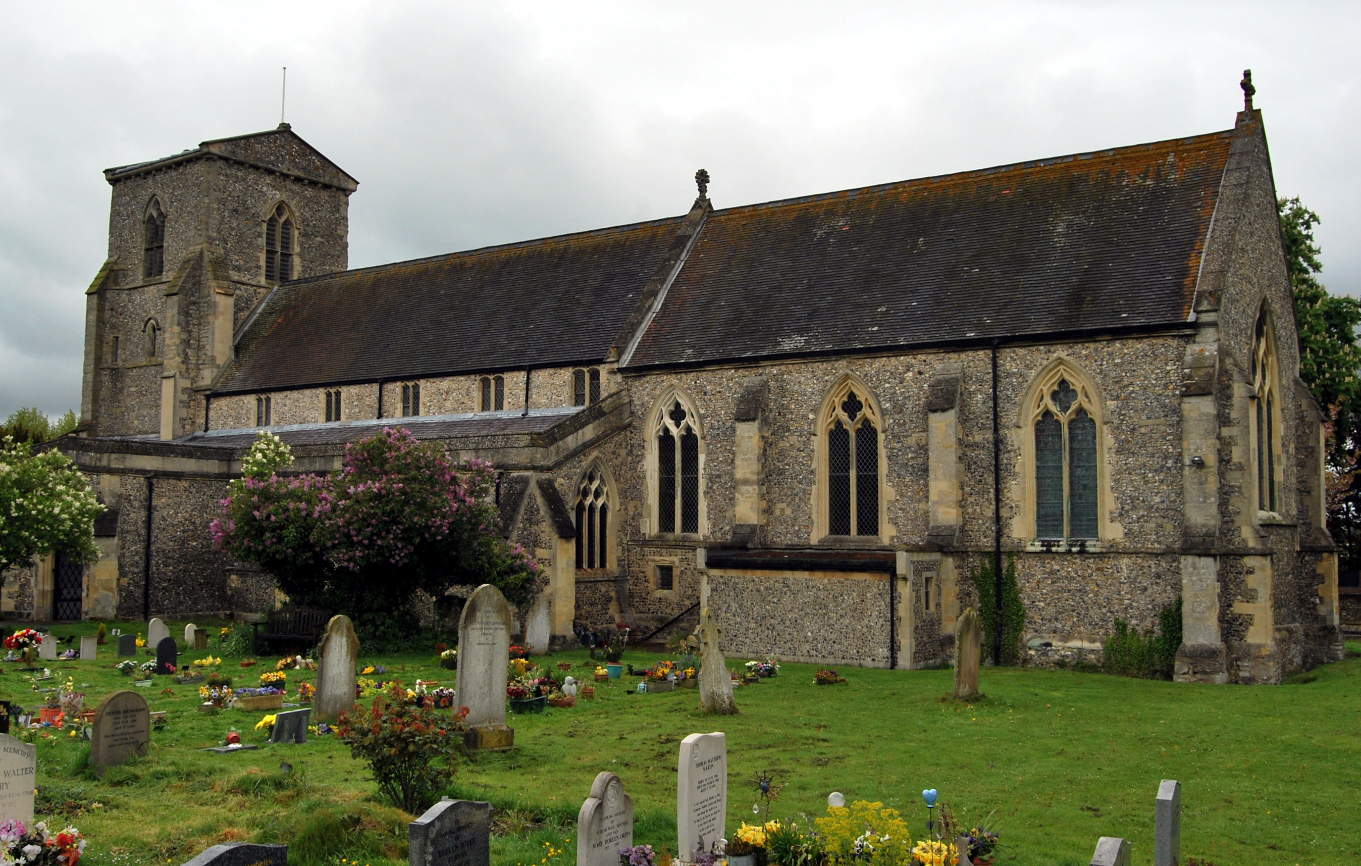 Church of England parish church of St Andrew, Chinnor, Oxfordshire